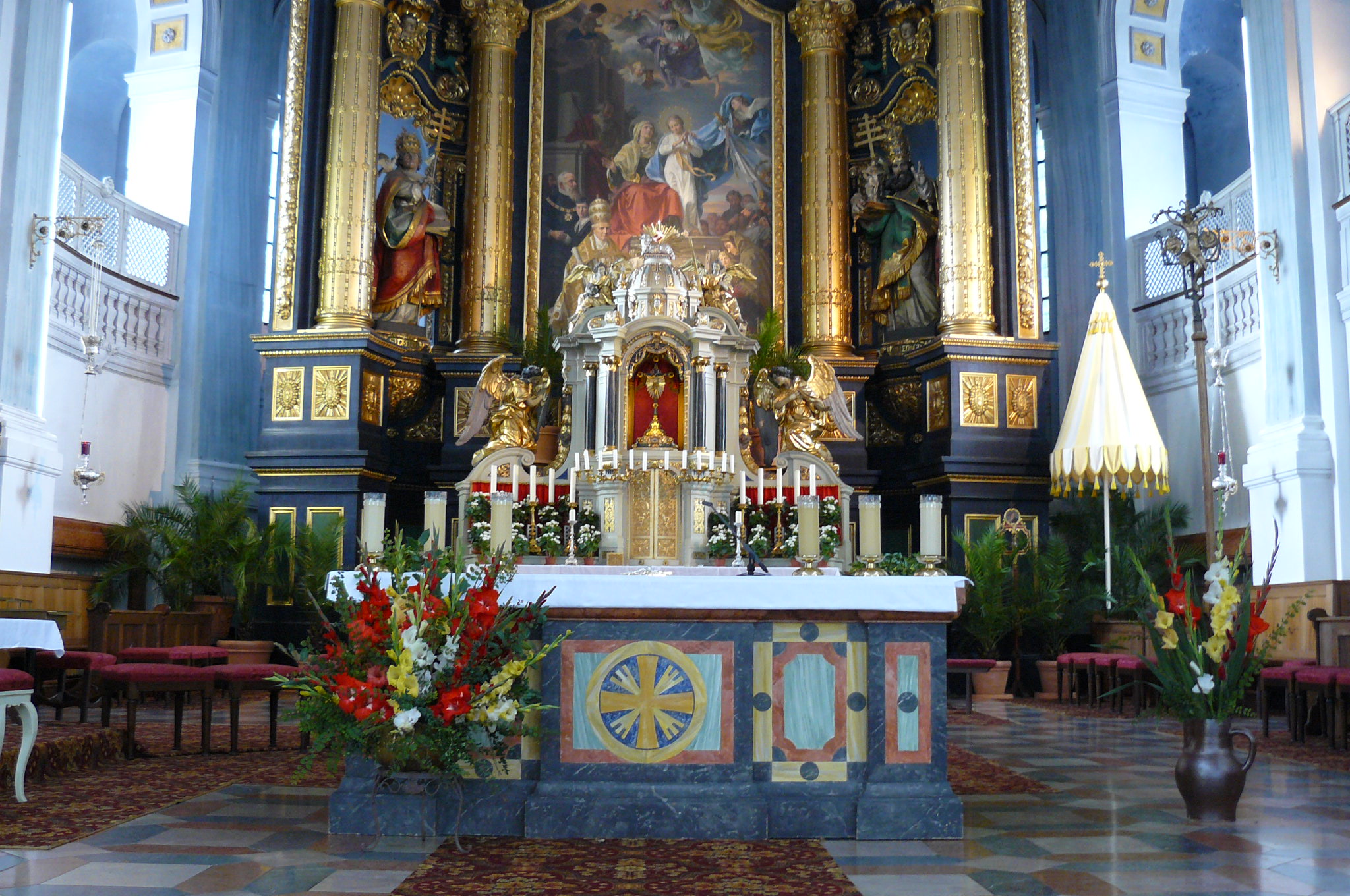 Altotting, St.Anna Church, interior.